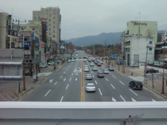 The view of Duryu village, Dalseo Ward, Deagu City, South Korea